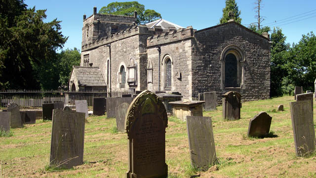 Parish Church of St Mary, Tissington, Derbyshire St Mary's church probably dates back to the 12th Century. There is original Norman work to be seen inside the church despite restoration in 1854. Tissington church contains many memorials to the Fitzherbert family, who acquired the village of Tissington in the 15th Century.